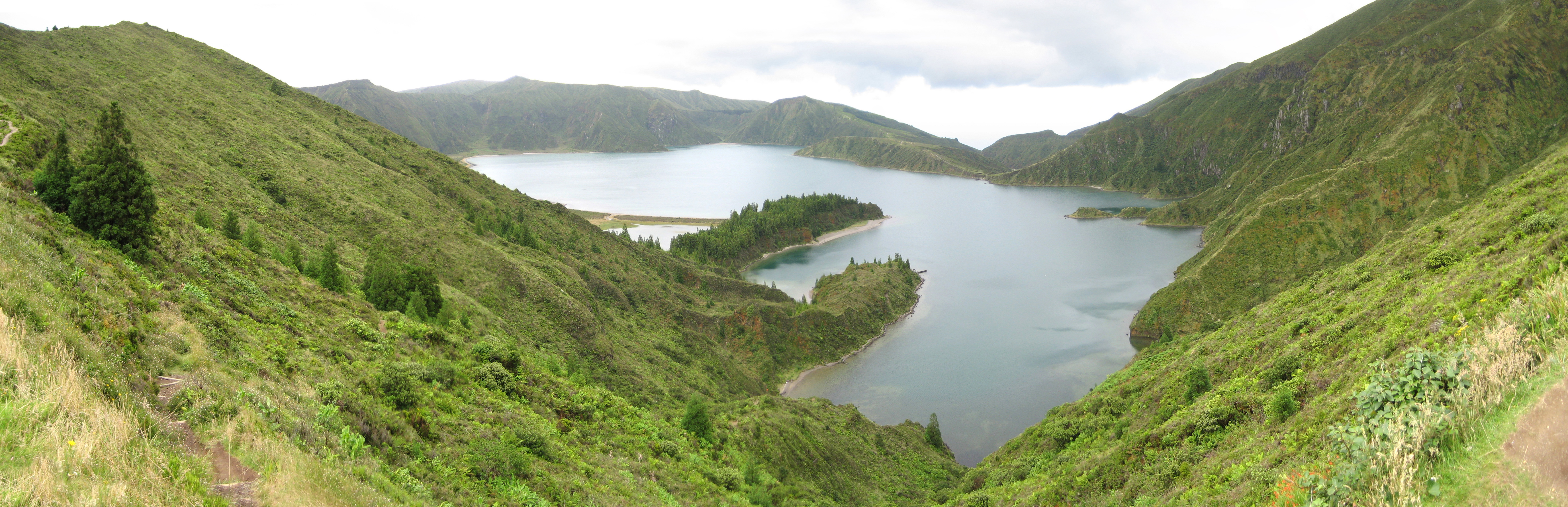 Lagoa do Fogo, volcanic crater on Sao Miguel (Azores)